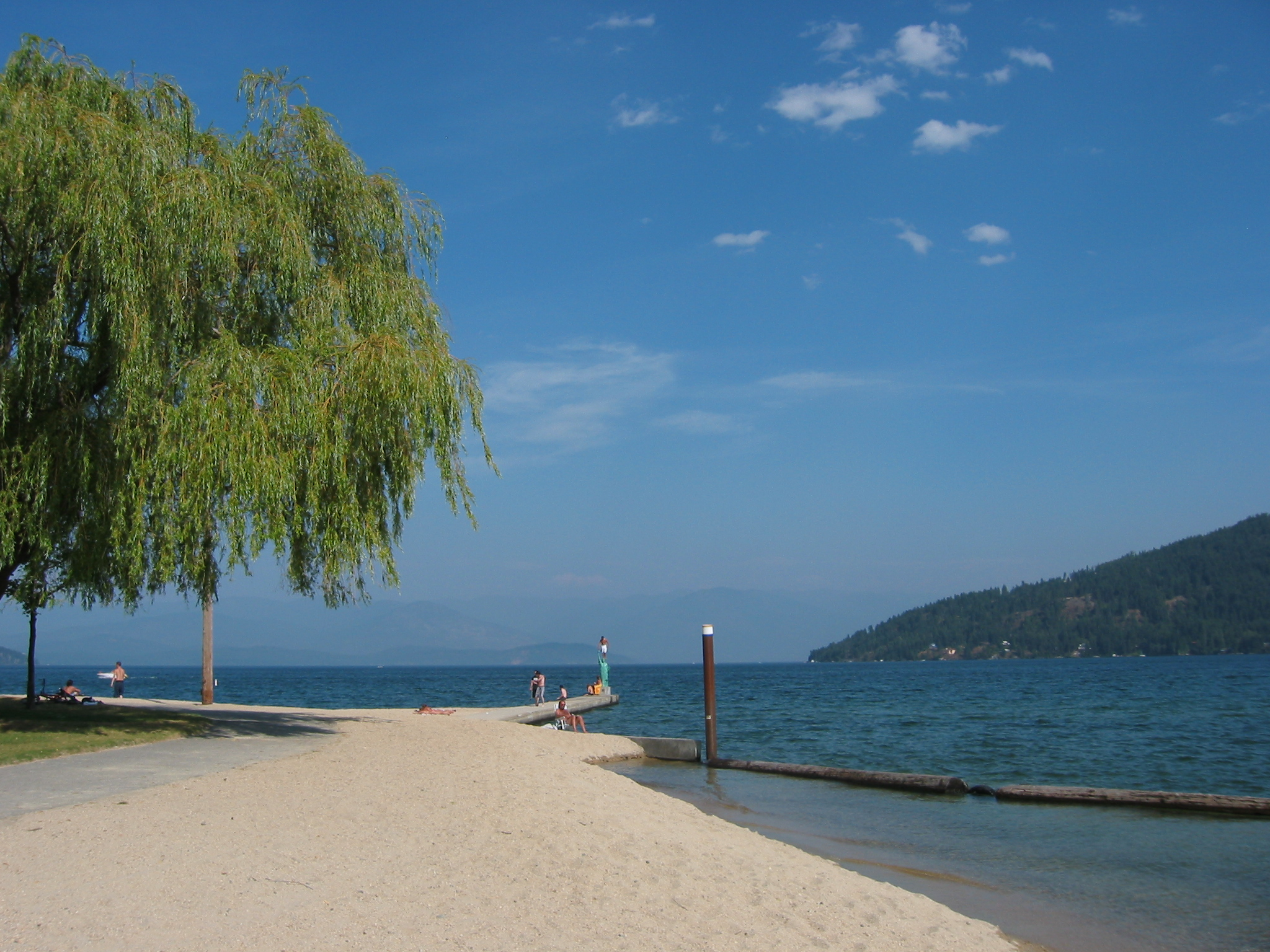 City beach on Lake Pend Oreille in Sandpoint, Idaho